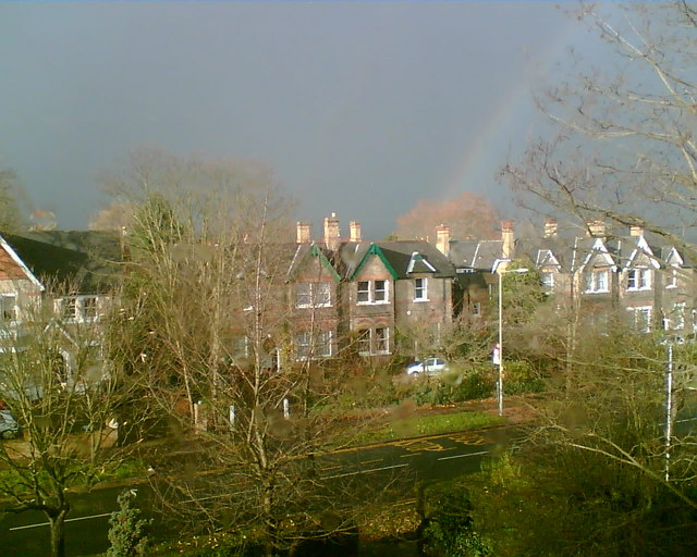 Copers Cope Road looking North West